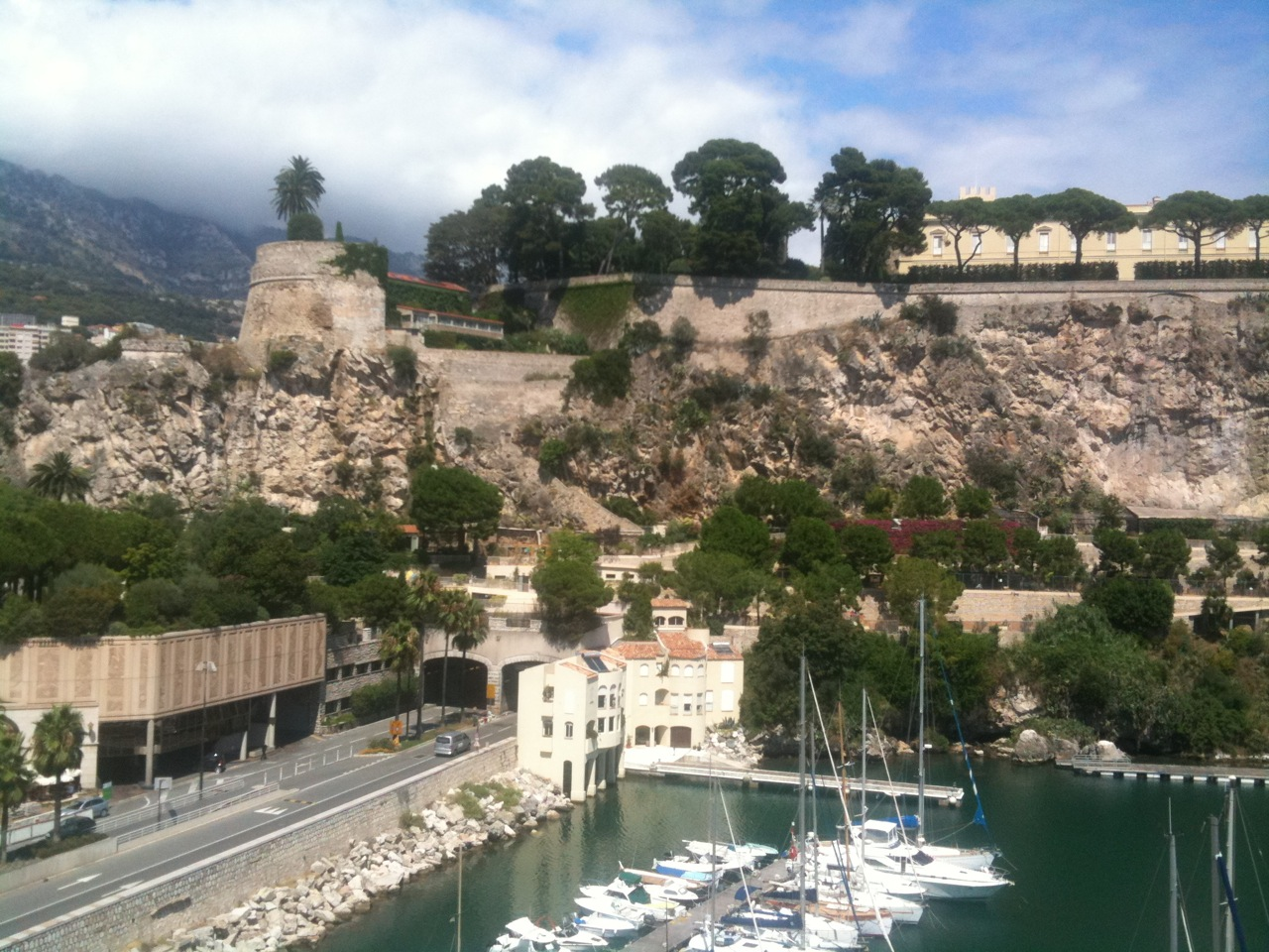 a view of the rock of Monaco